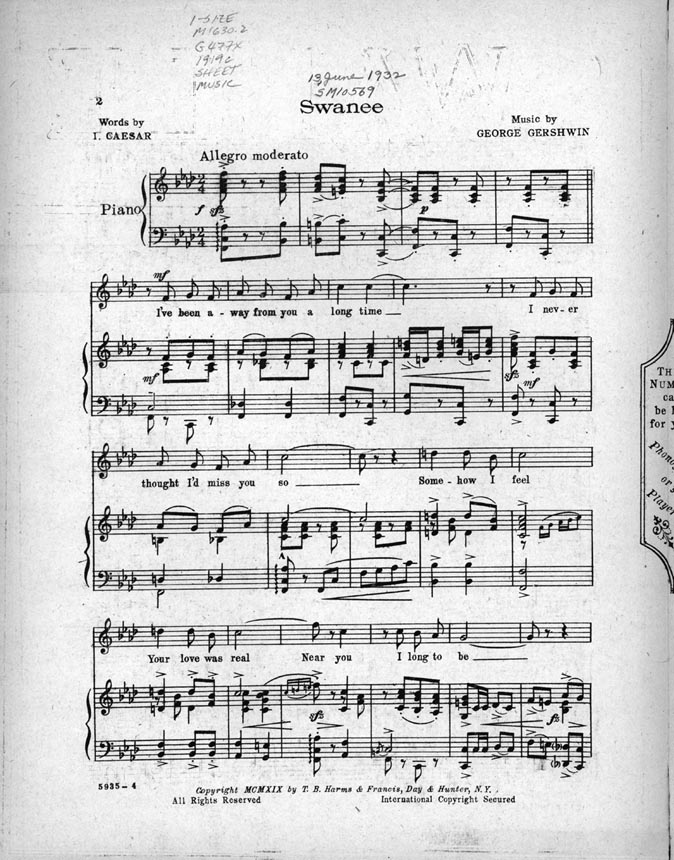 "Swanee", Page 2 of 5. 1919 edition published by T.B. Harms and Francis Day & Hunter, New York